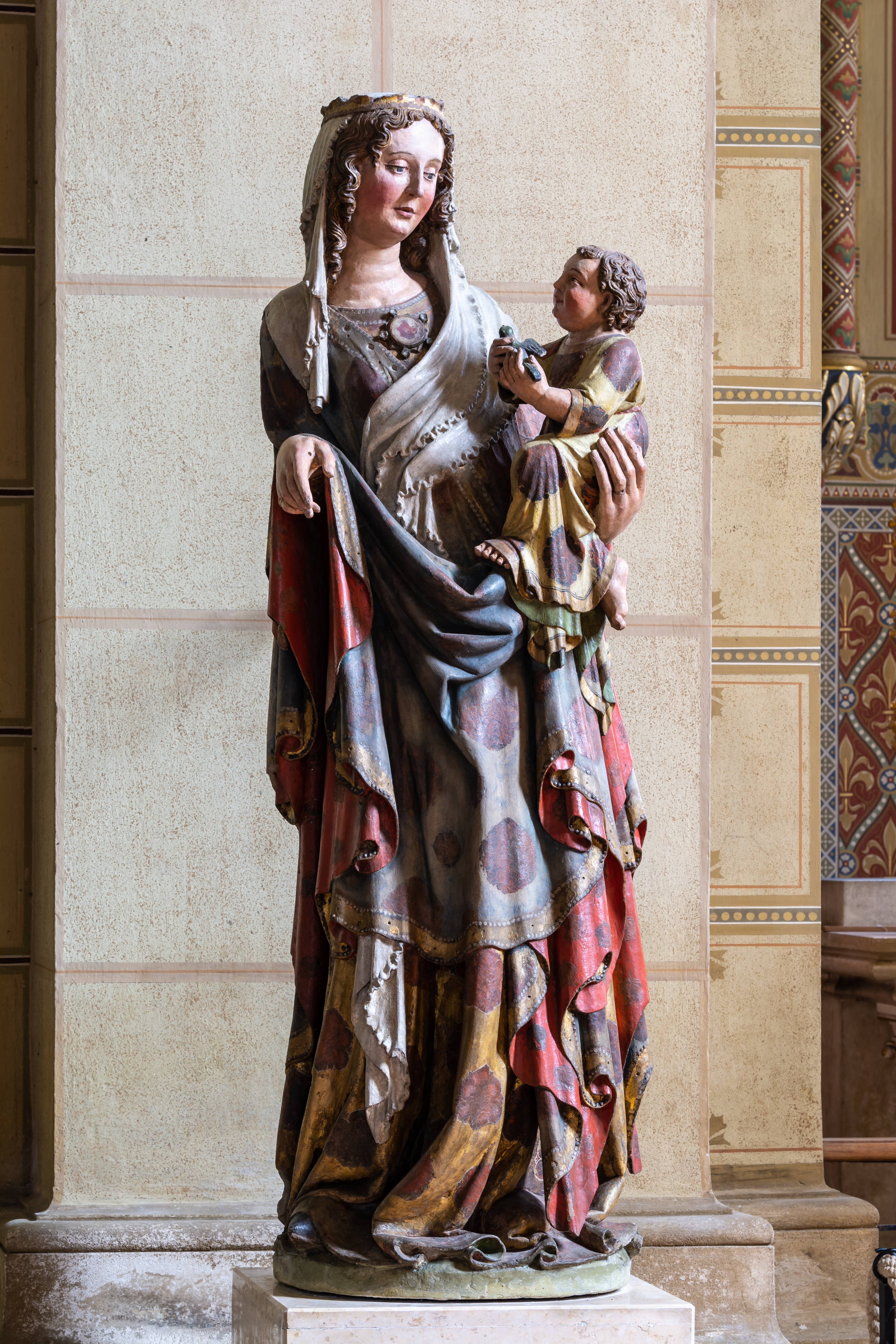 Friesach Madonna at the Dominican church St. Nicholas in Friesach, Carinthia, Austria. Anonymous master, around 1340.